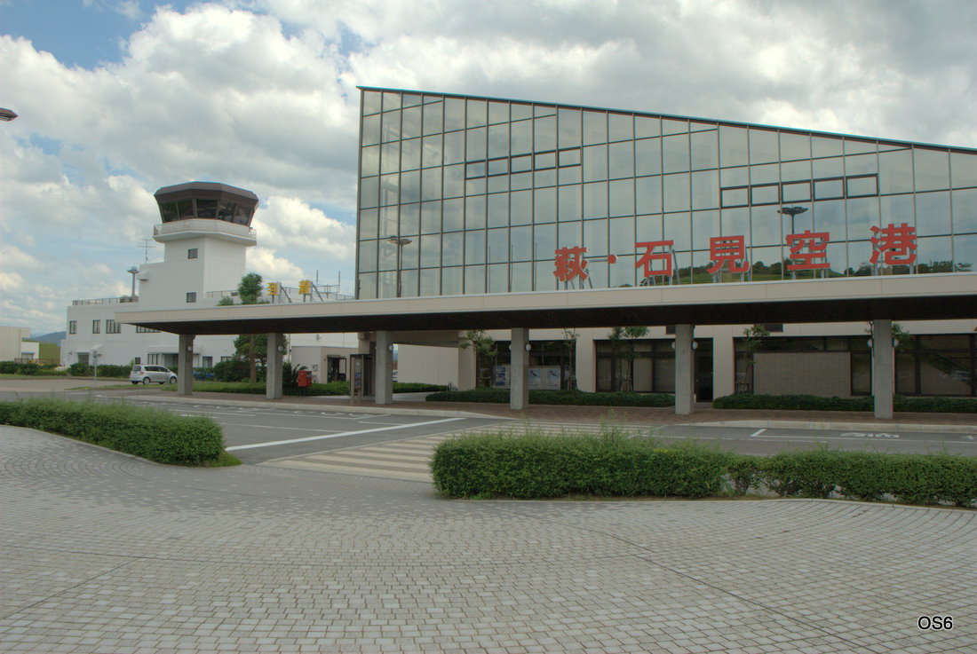 Hagi Iwami Airport